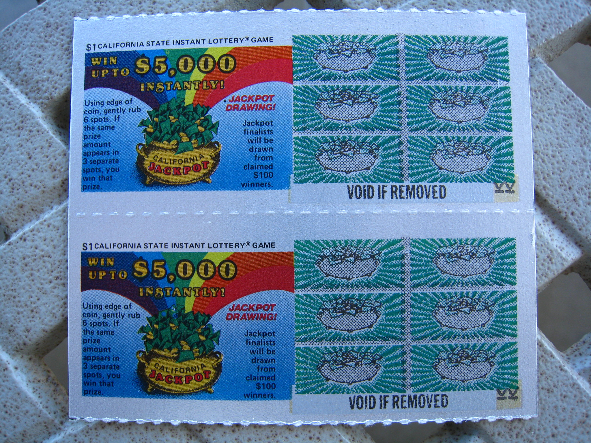 First California Lottery Tickets purchased October 3rd, 1985 in Santa Rosa - unused - never scratched